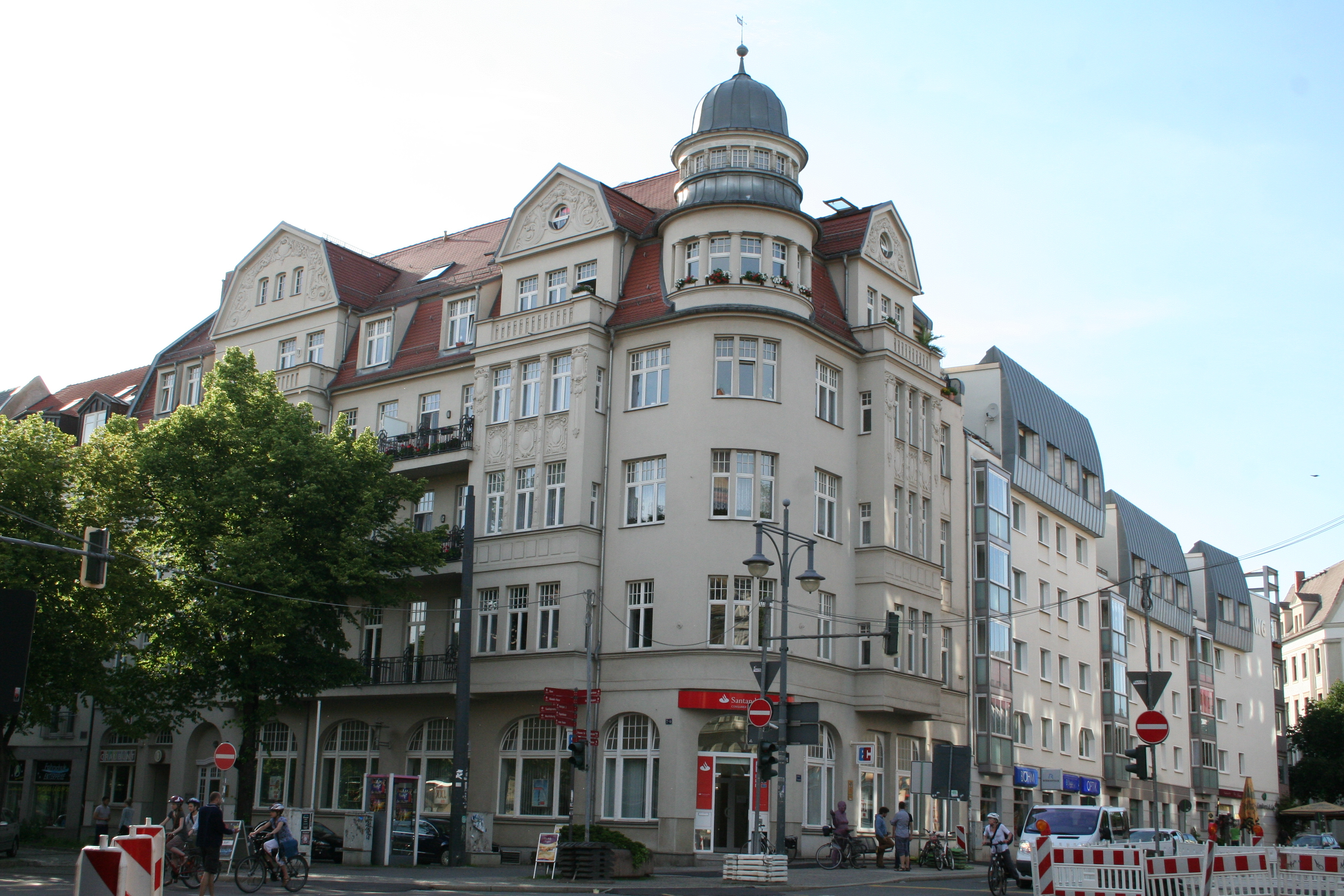 Geiststraße 1 in Halle (Saale)